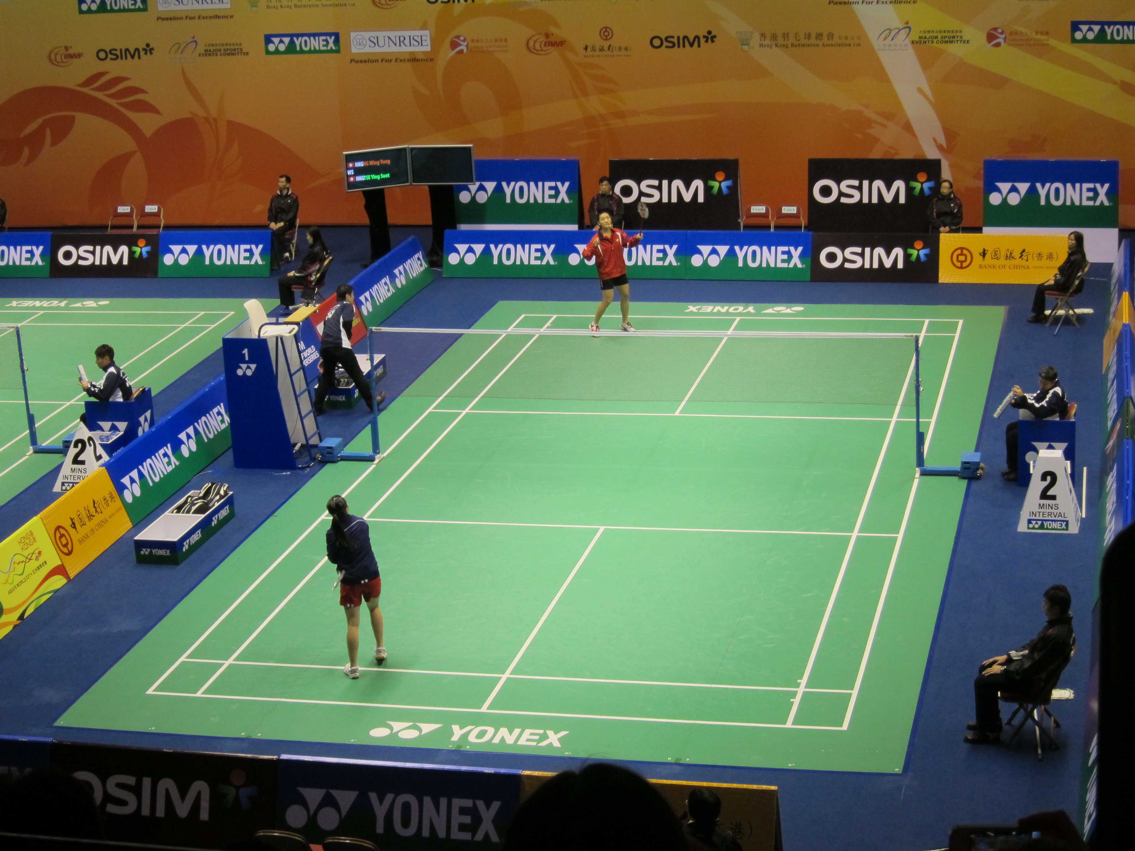 Hong Kong Open Badminton Championships 2011 - The players are warming up (Tse Ying Suet & Ng Wing Yung)